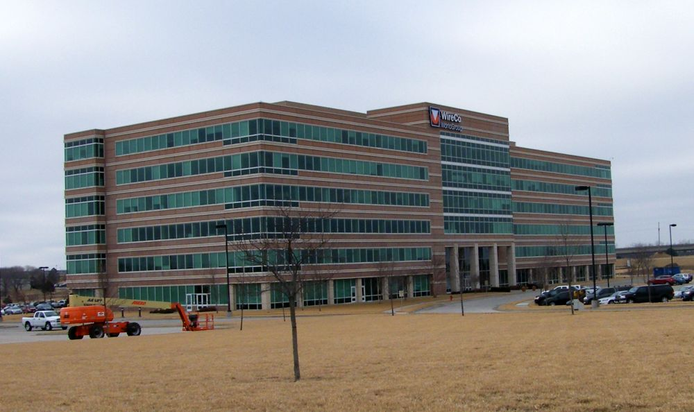 Farmland Industries last headquarters by Kansas City International Airport (in 2009).